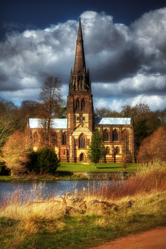 Taken by Wayne Austin FlickR Page